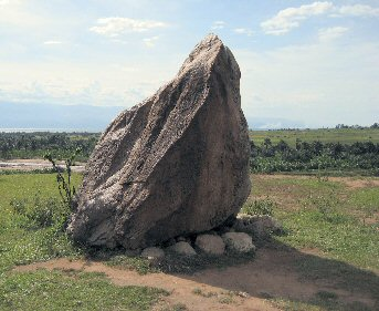 The engraved stone memorial at Mugere, a few kilometres south of Bujumbura, Burundi where some Burundians claim that journalist, Henry Stanley met missionary and explorer, Dr David Livingtone. However, it was a place where the two explorers visited together shortly after their famous meeting.